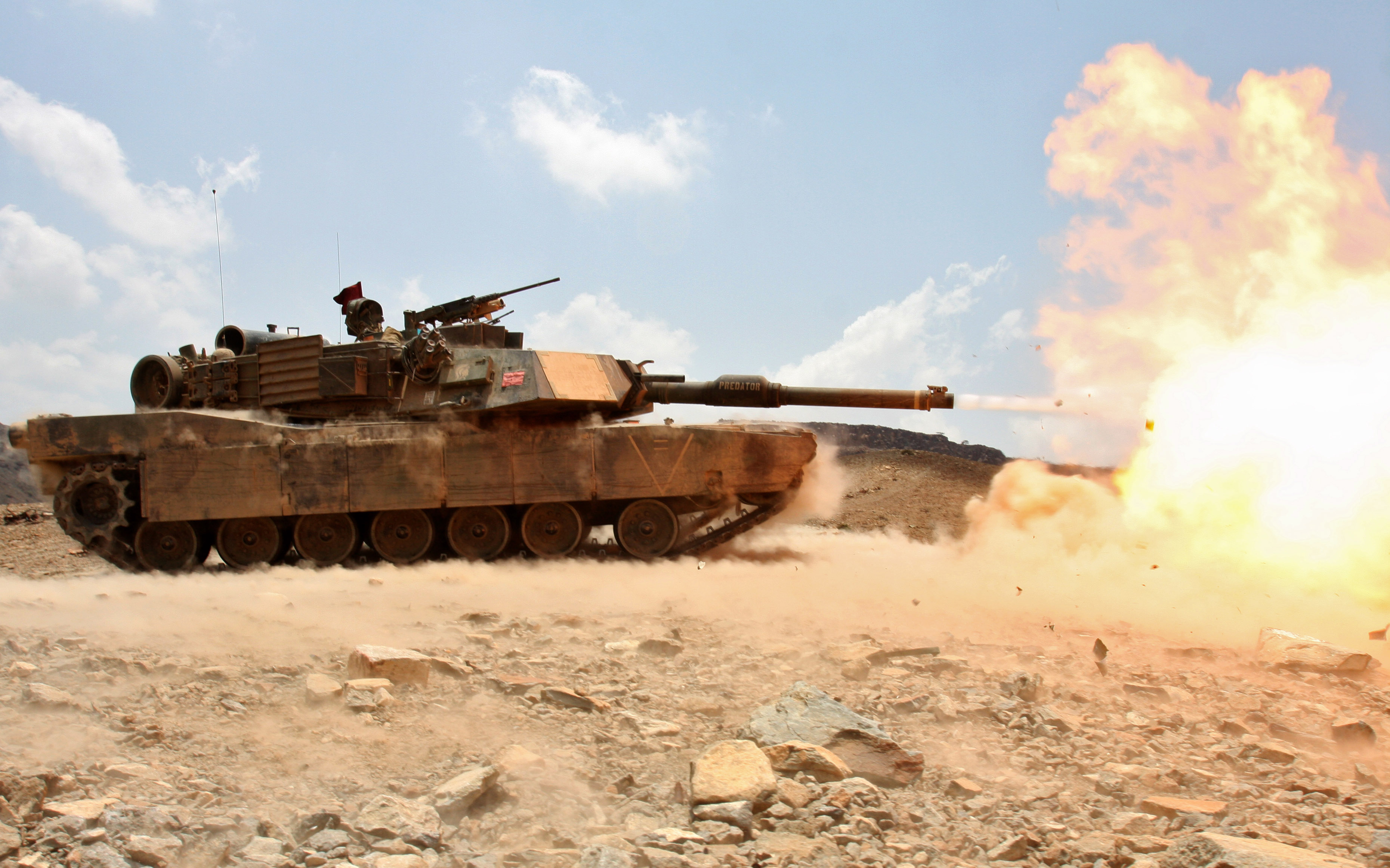 A M1A1 Abrams battle tank from Tank platoon Alpha Company, Battalion Landing Team 1st Battalion, 9th Marine Regiment, 24th Marine Expeditionary Unit, discharges a 120mm round towards a tank hull during a live-fire range in Djibouti, Africa March 30. Marine tank crewmen engaged various targets alongside the French 13th Foreign Legion Demi-Brigade as part of a joint exercise. The 24th MEU is currently serves as the theatre reserve force for Central Command during its seven month deployment aboard Nassau Amphibious Ready Group vessels. (U.S. Marine Corps photo by Sgt. Alex C. Sauceda)